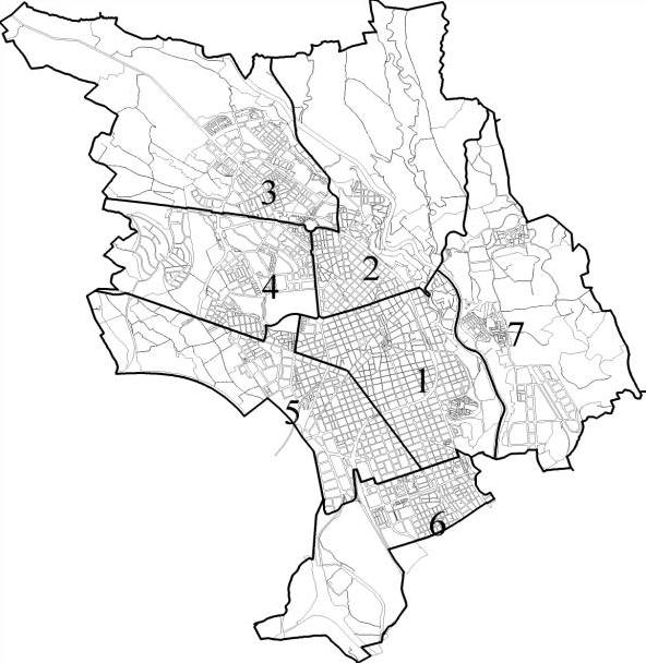 Mapa dels 7 districtes de Sabadell